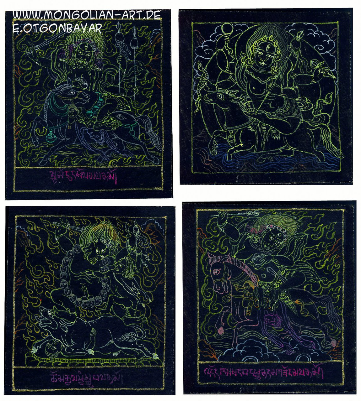 Buddhist gods, Tempera on cotton, each 6 x 7 cm, Ulaanbaatar 1999, Otgonbayar Ershuu